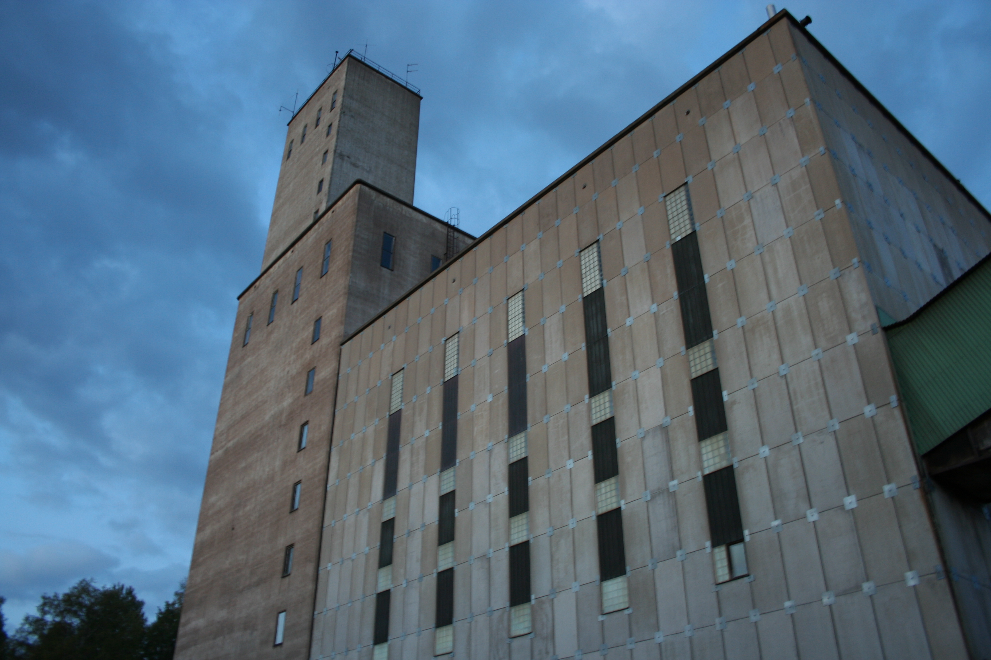 Mimer mine in Norberg